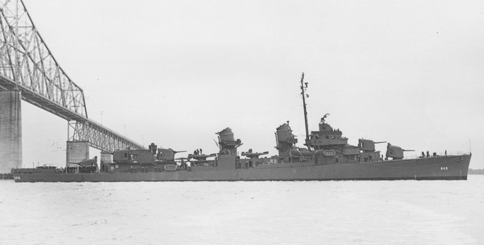 The U.S. Navy destroyer USS Albert W. Grant (DD-649) passes under the John P. Grace Memorial Bridge (Cooper River Bridge), Charleston, South Carolina (USA), on 11 December 1943.